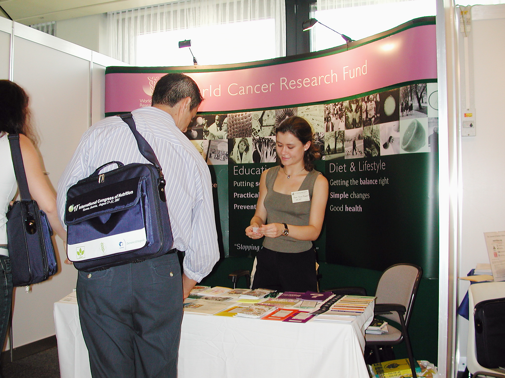 Historical IAEA Exhibits at the 17th International Congress of Nutrition held at the Austria Center, Vienna, Austria. 27-31 August 2001 Photo Credit: Dean Calma / IAEA